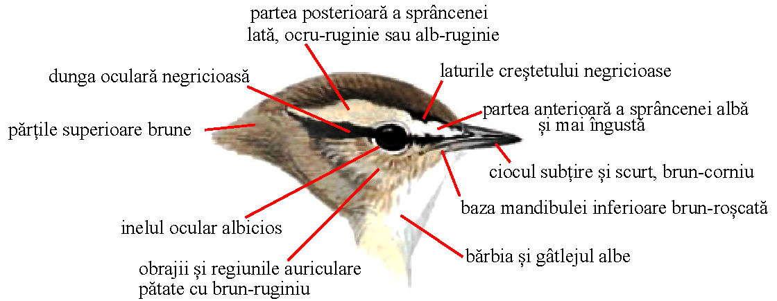 Phylloscopus fuscatus, head pattern